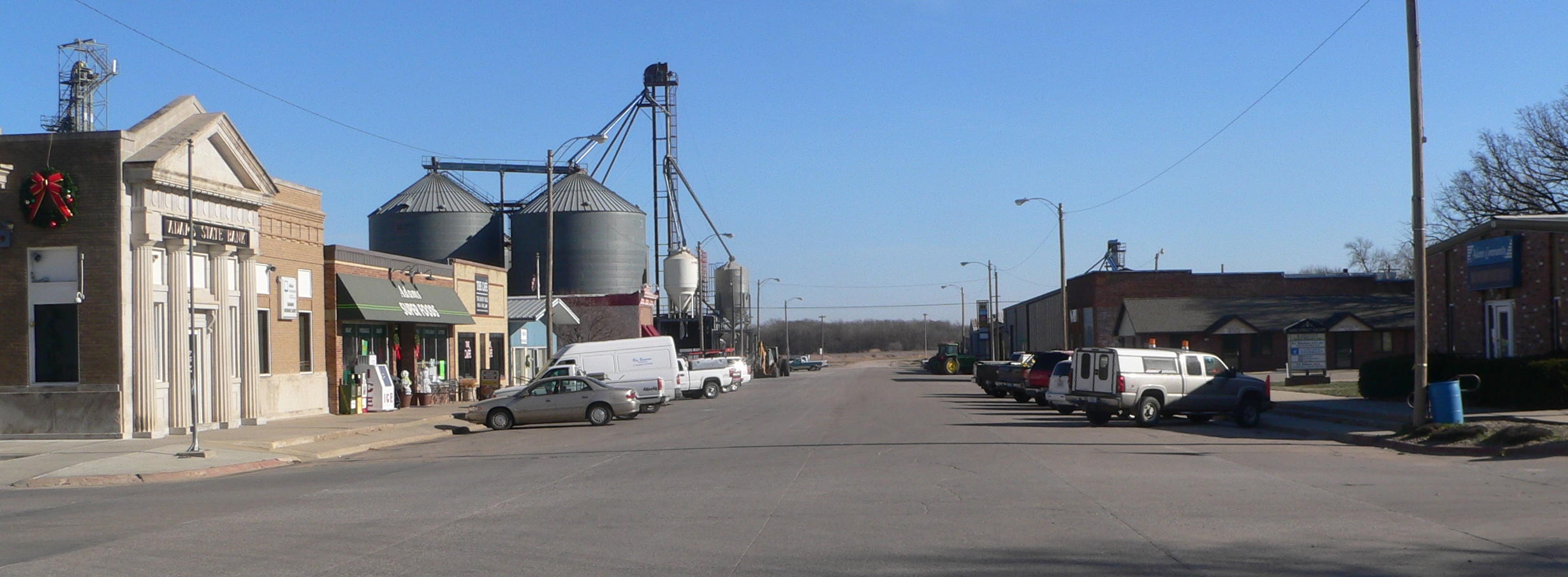 Downtown Adams, Nebraska: Main Street. Camera is facing east.